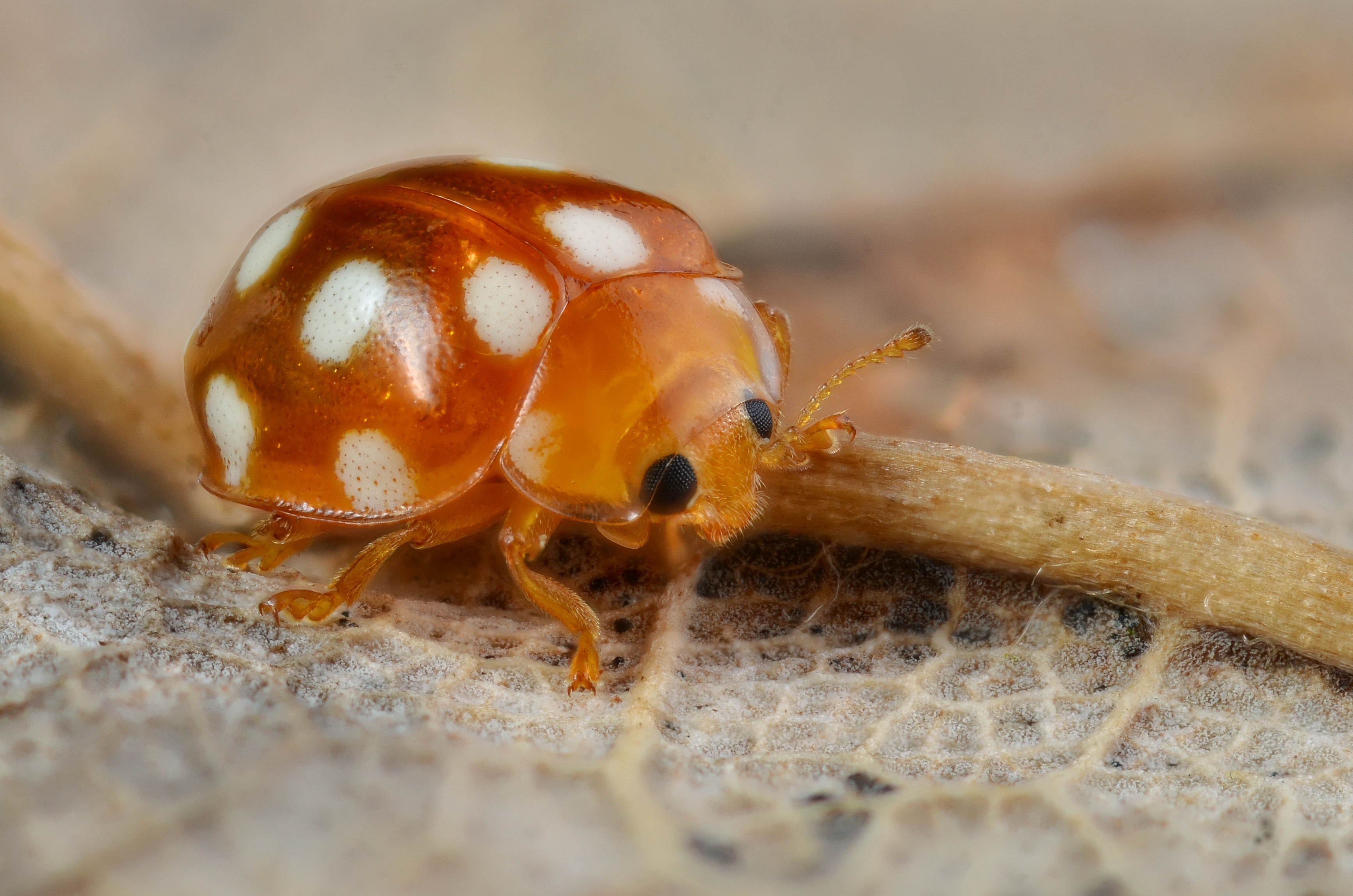 The ladybird Vibidia duodecimguttata. Jambes, Belgium. Focus stack of 8 handheld pictures. Micro-Nikkor 60 mm f/2.8 AF-D on extention tubes @ 100 iso, 1/60s, f/14